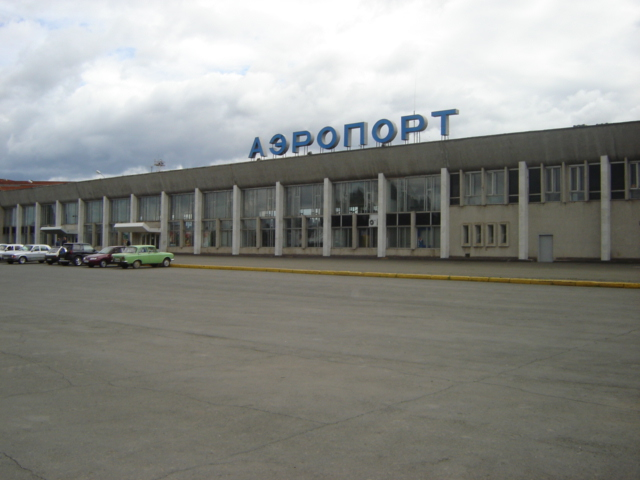 Izhevsk Airport